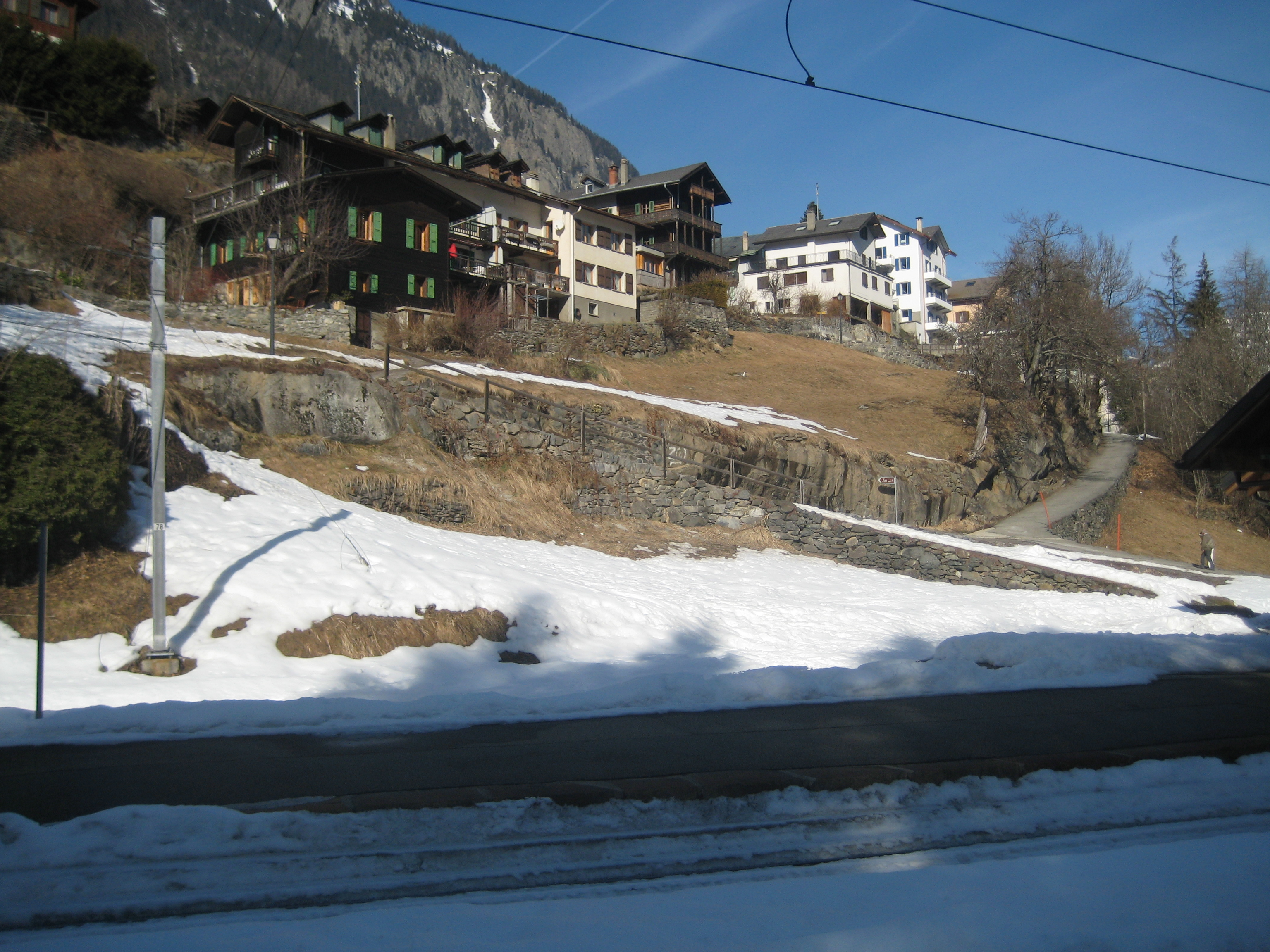 Les marécottes, view from the railway station